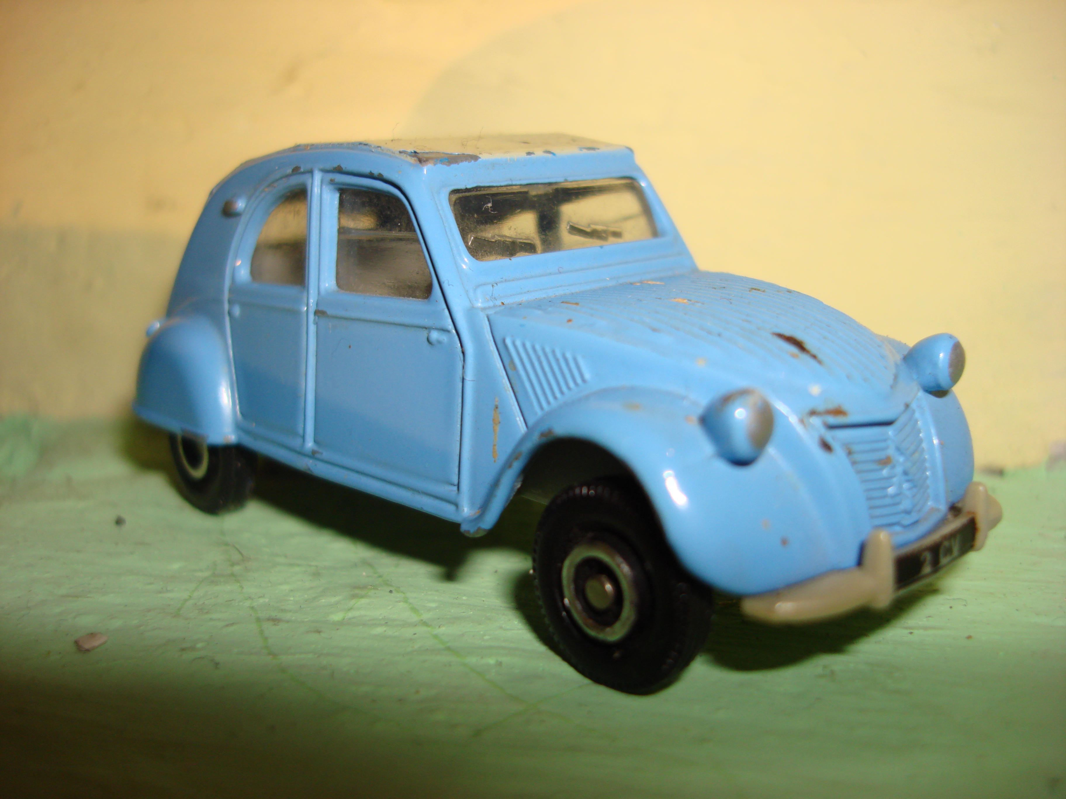 A Model 2cv made by Corgi